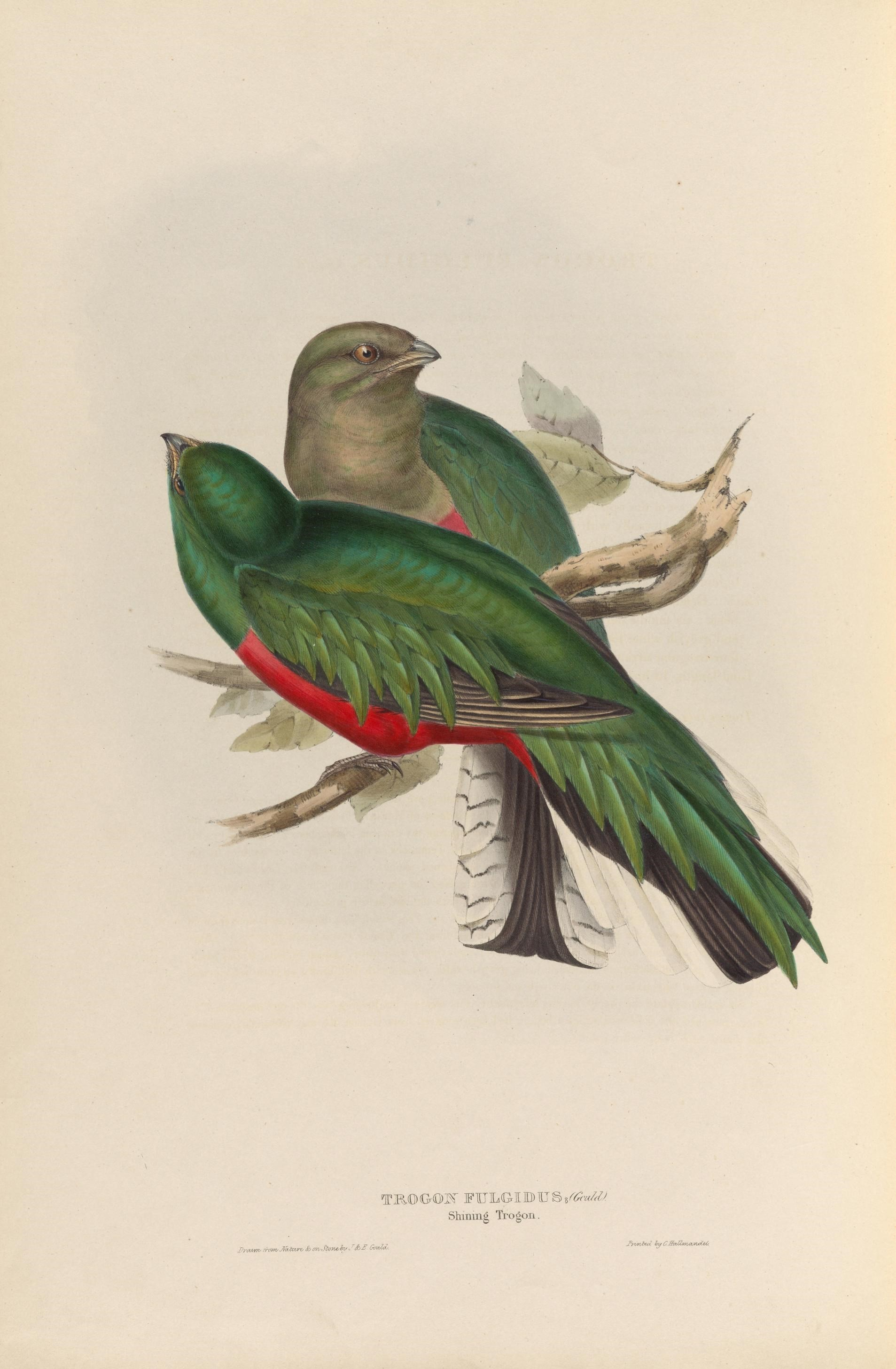 Pharomachrus fulgidus - A monograph of the Trogonidae, or family of trogons